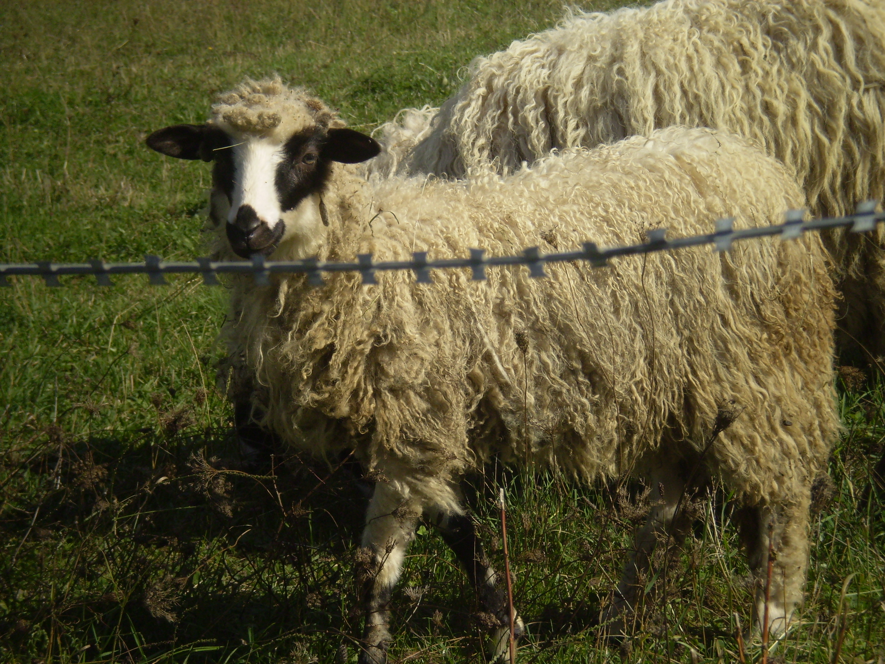 A sheep from Visoko.